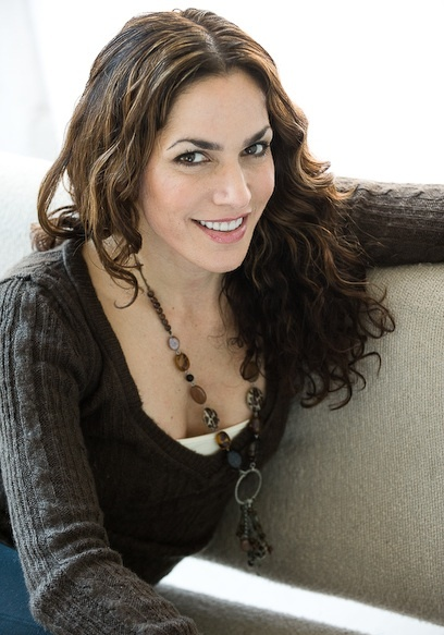 This is a photograph of Darcy Sterling, of the advice column Ask Dr Darcy. The photo was taken on September 15, 2009 by Andrew Steinman.